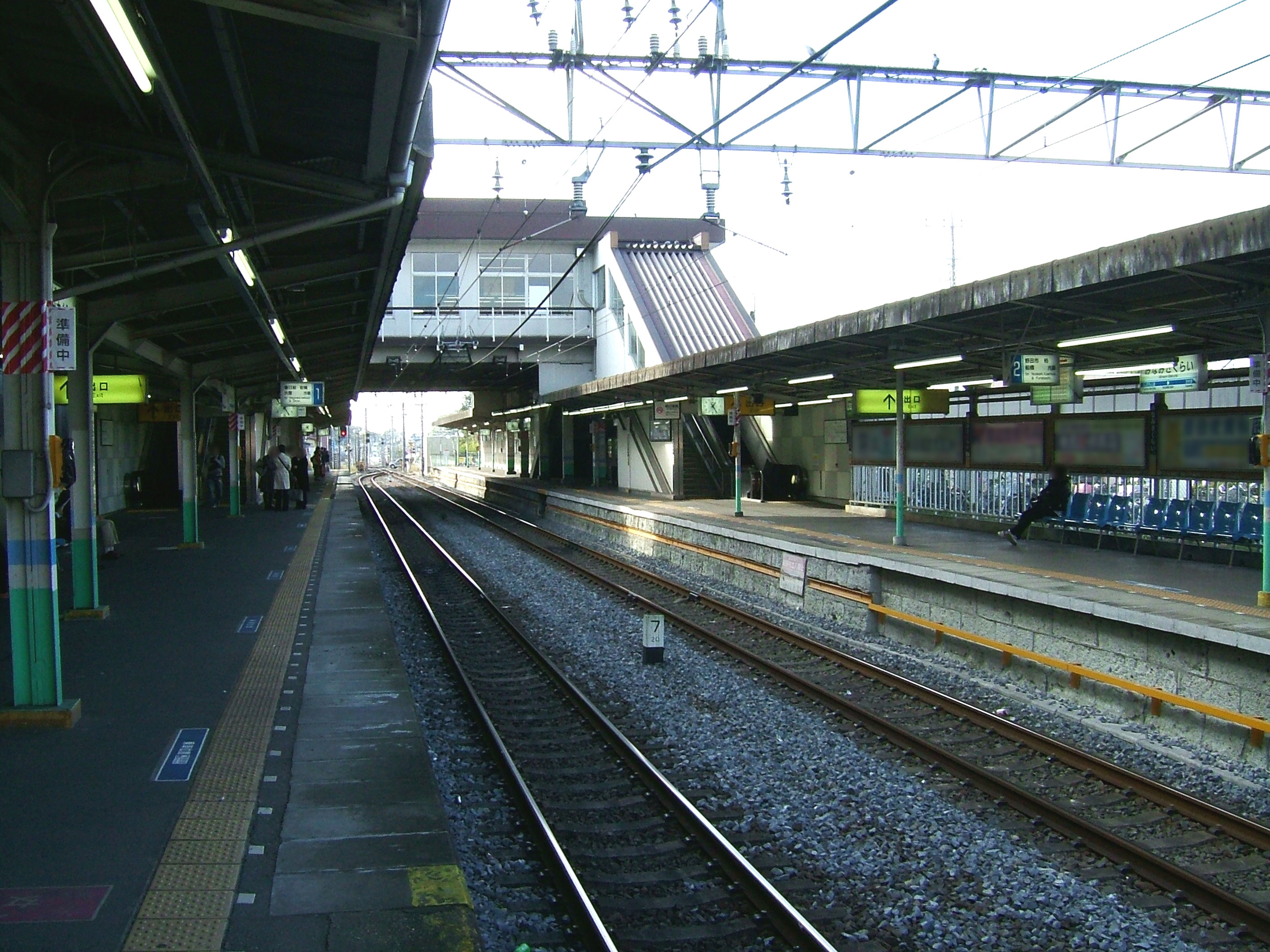 Minami-Sakurai Station platform (Tōbu Railway Noda Line)